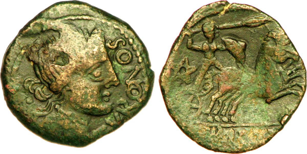 Bronze au bige frappé par les Turons Date : c. 80-50 AC Description revers : Bige lancé à droite, un guerrier debout, brandissant une lance de la main droite et tenant un bouclier de a gauche, dans le char ; un pentagramme au-dessus de la roue du char ; légende sous la ligne d’exergue . Description avers : Tête de Vénus, diadémée à droite, légende devant le visage ; grènetis